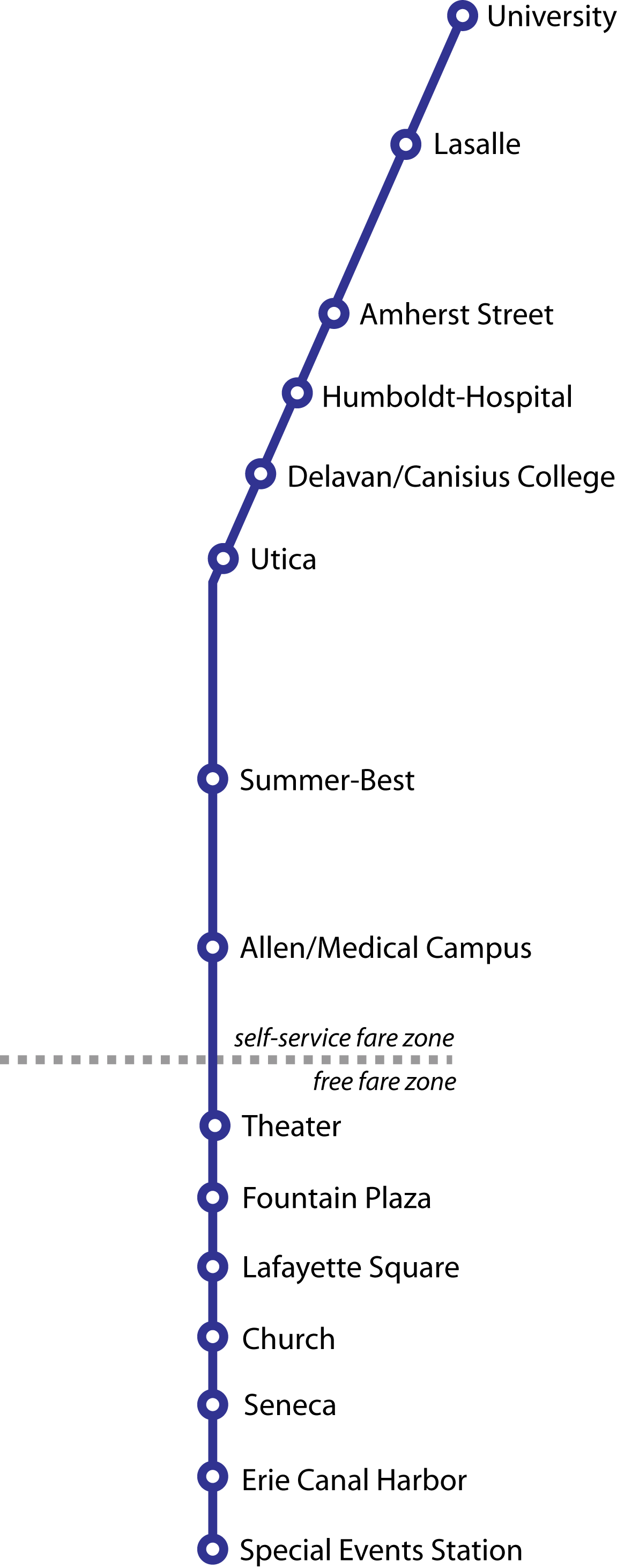 Map of Buffalo Metro Rail system, created by User:Darkcore.